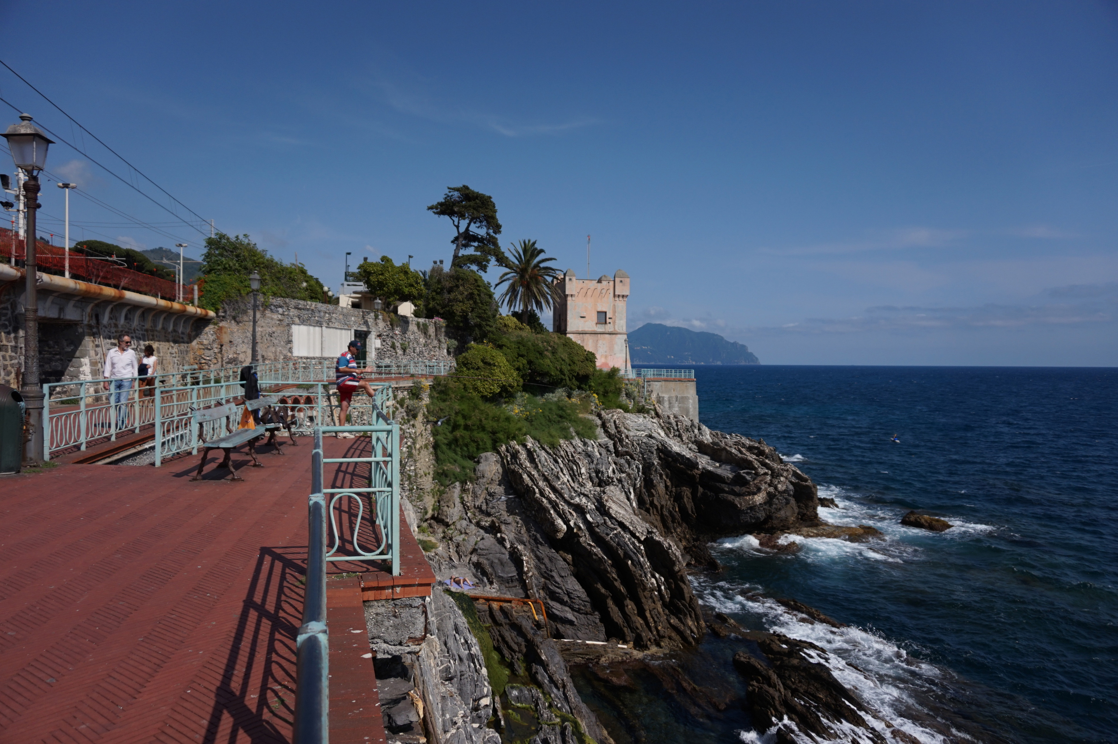 Passeggiata Anita Garibaldi in Nervi. This photograph was taken with a Sony Alpha a5000.